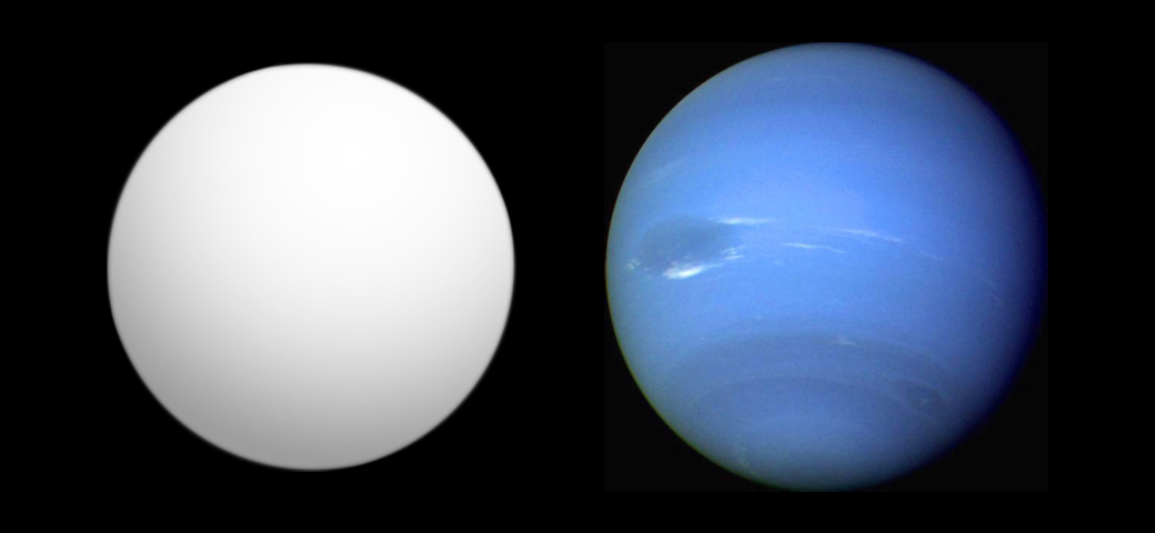 Comparison of best-fit size of the exoplanet Kepler-11 g with the Solar System planet Neptune, as reported in the Open Exoplanet Catalogue[1] as of 2010-09-30. ↑ Open Exoplanet Catalogue (2010-09-30). Retrieved on 2010-09-30.